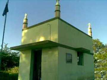 Dargah of Hazrat Umar Khattab Shaheed Raziyallah Kilavanery. Meesal, Paramakudi.